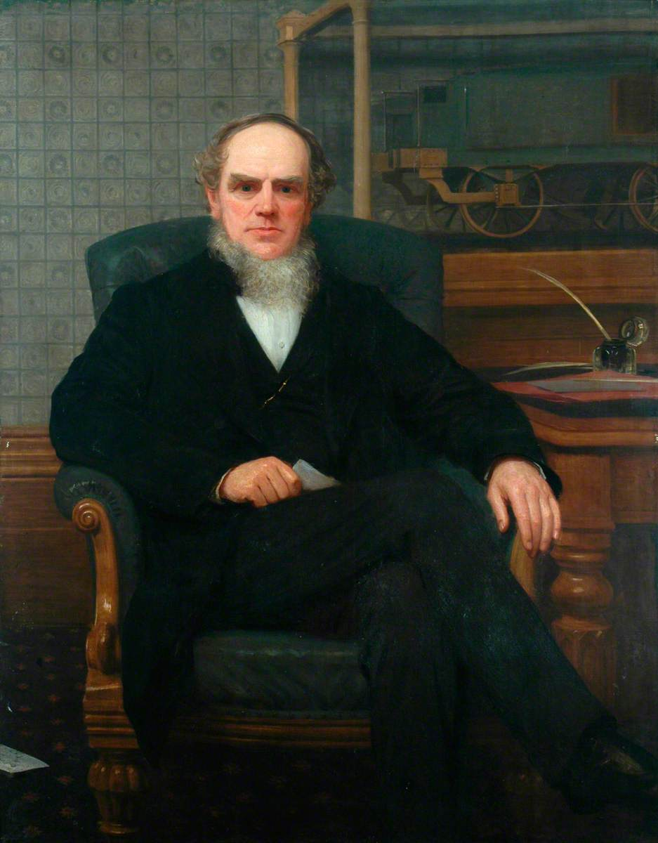 Photograph of a painting of John Ramsbottom, engineer